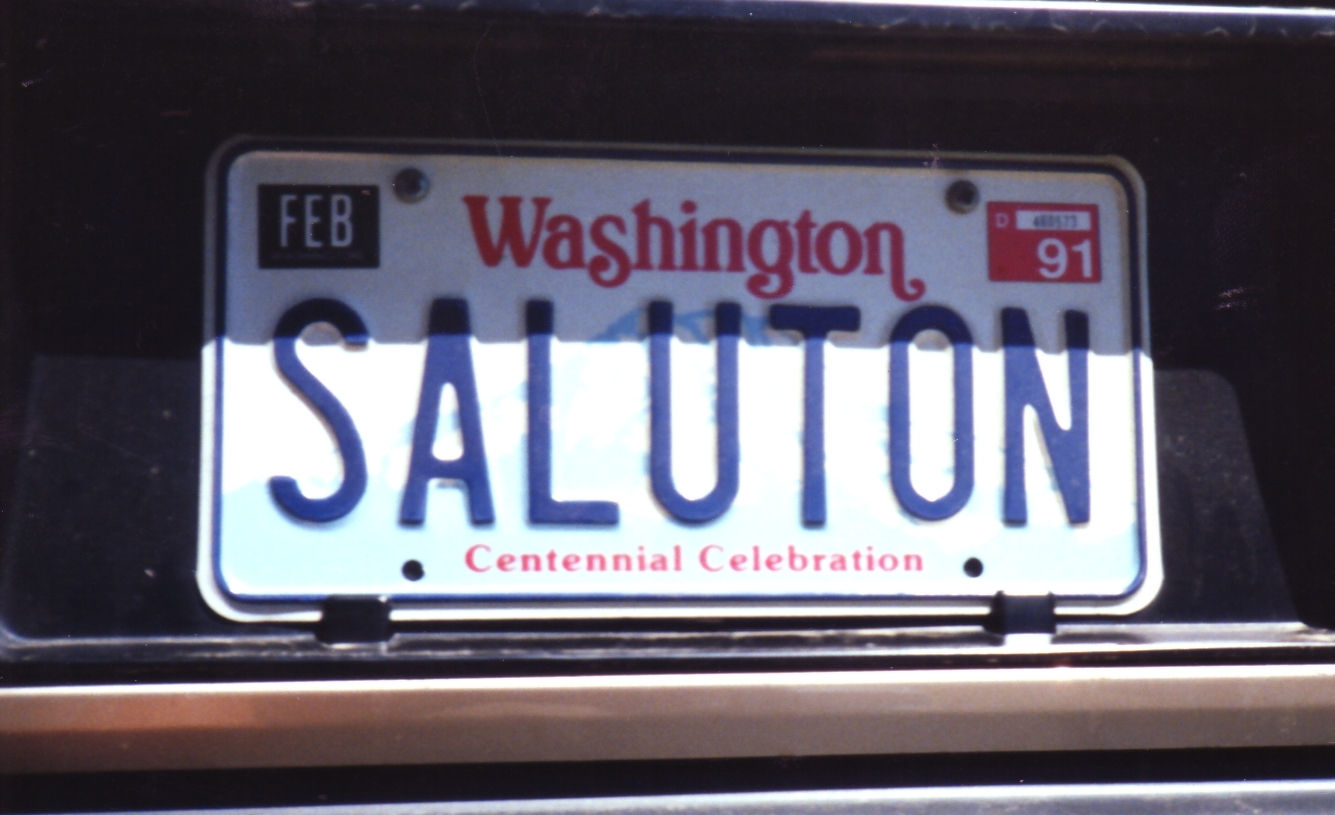 license plate "Saluton" ("Hello" in Esperanto) in Washington, valid until feb. 1991 ("centennial celebration" refers to Washington's statehood, 1889-1989)